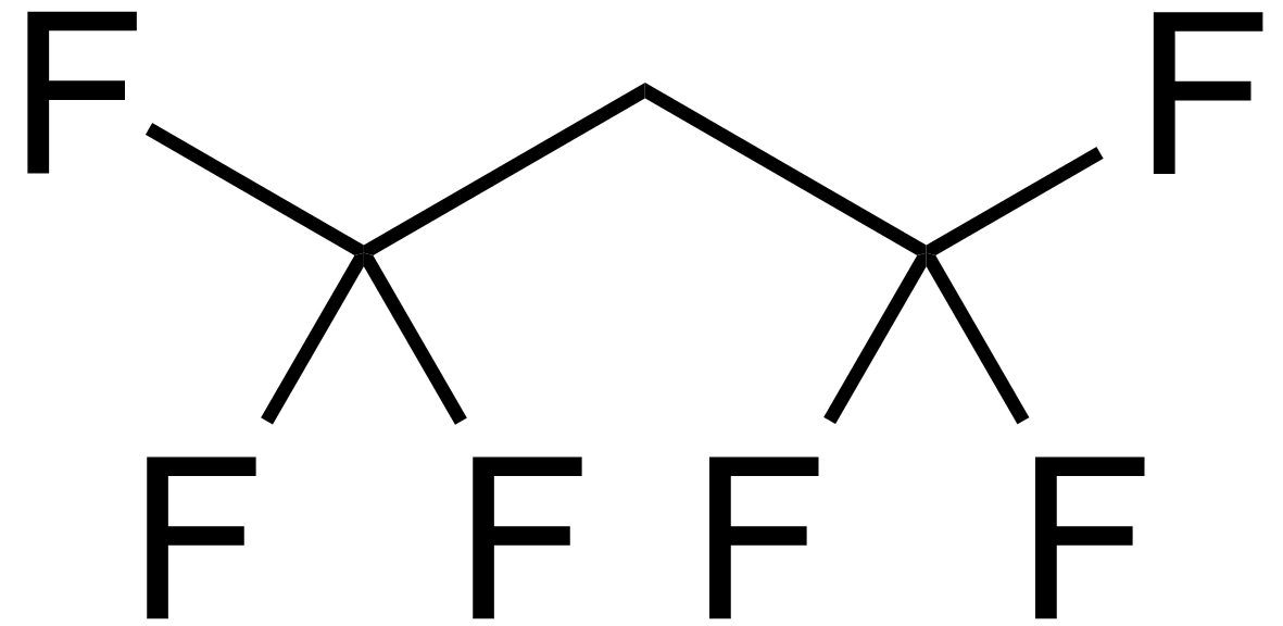 Chemical structure of 1,1,1,3,3,3-hexafluoropropane (HFC-236fa)